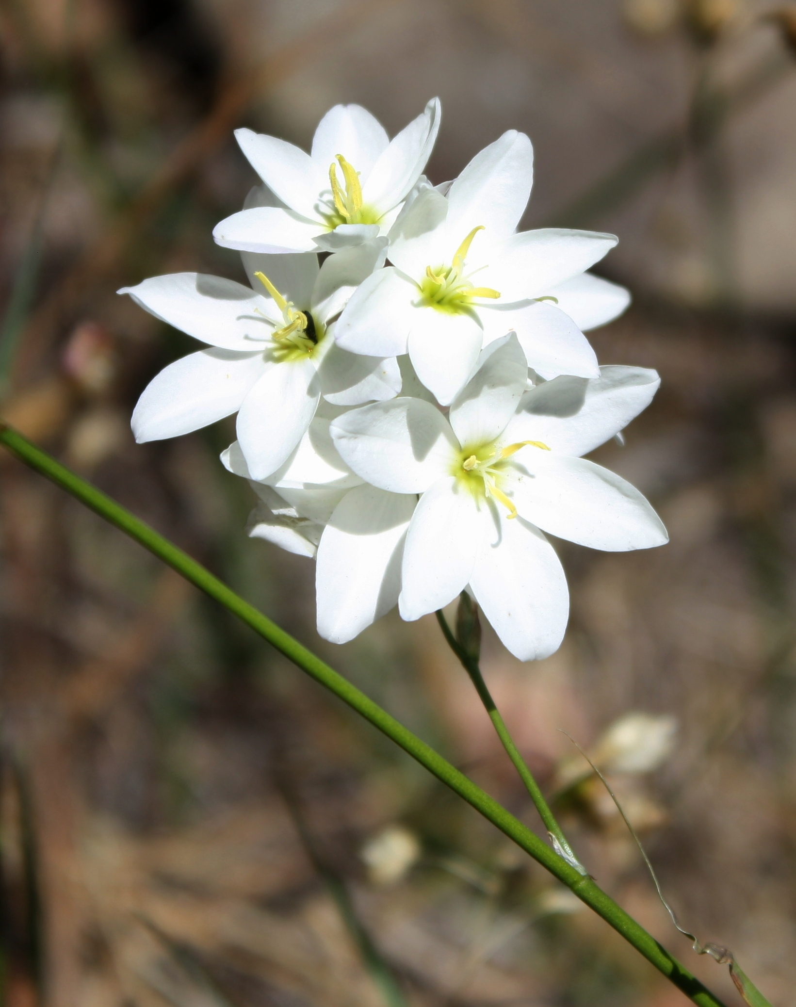 Newlands Cape Town Dec 13